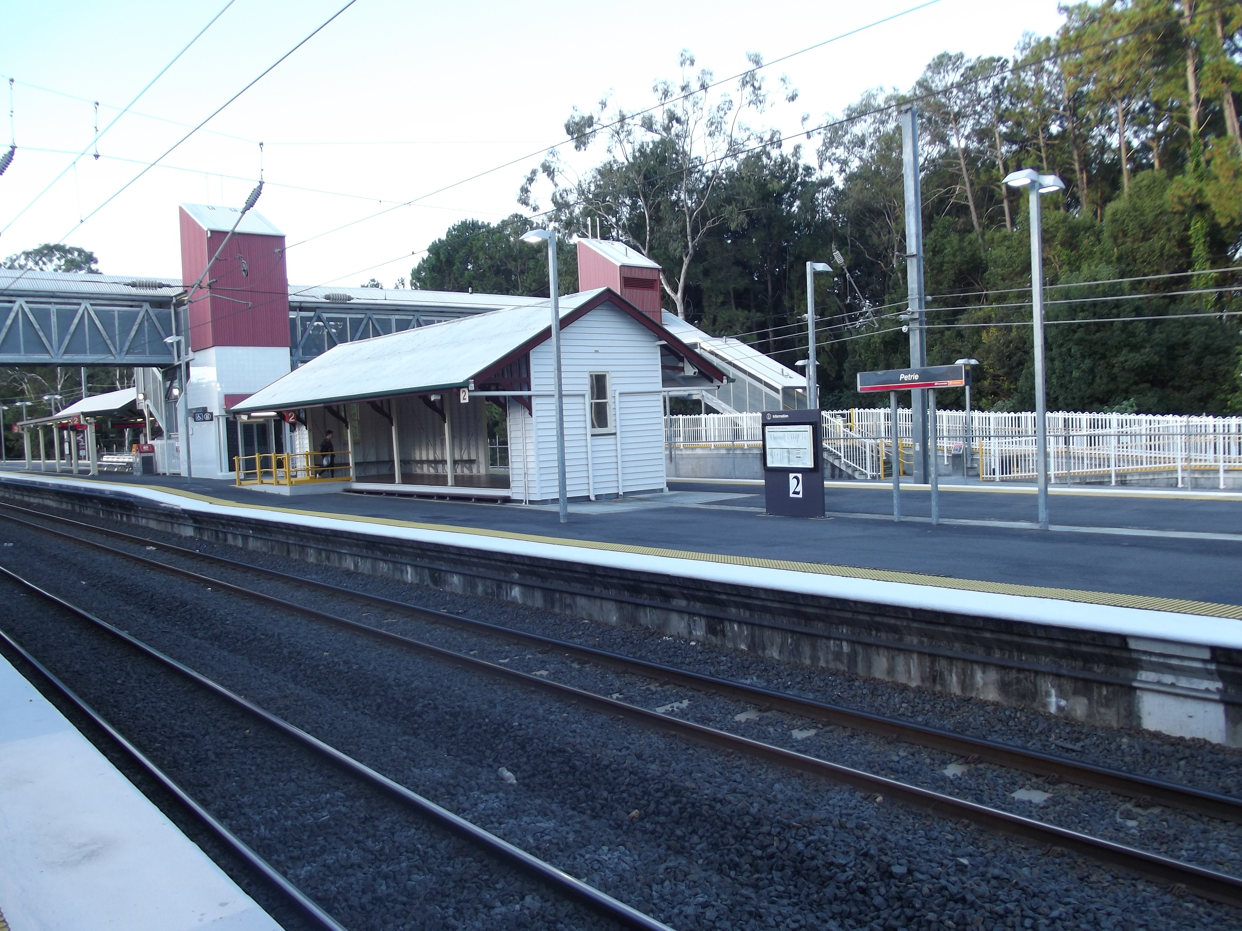 A photo of the Petrie railway station operated by TransLink, located in Brisbane, Queensland.